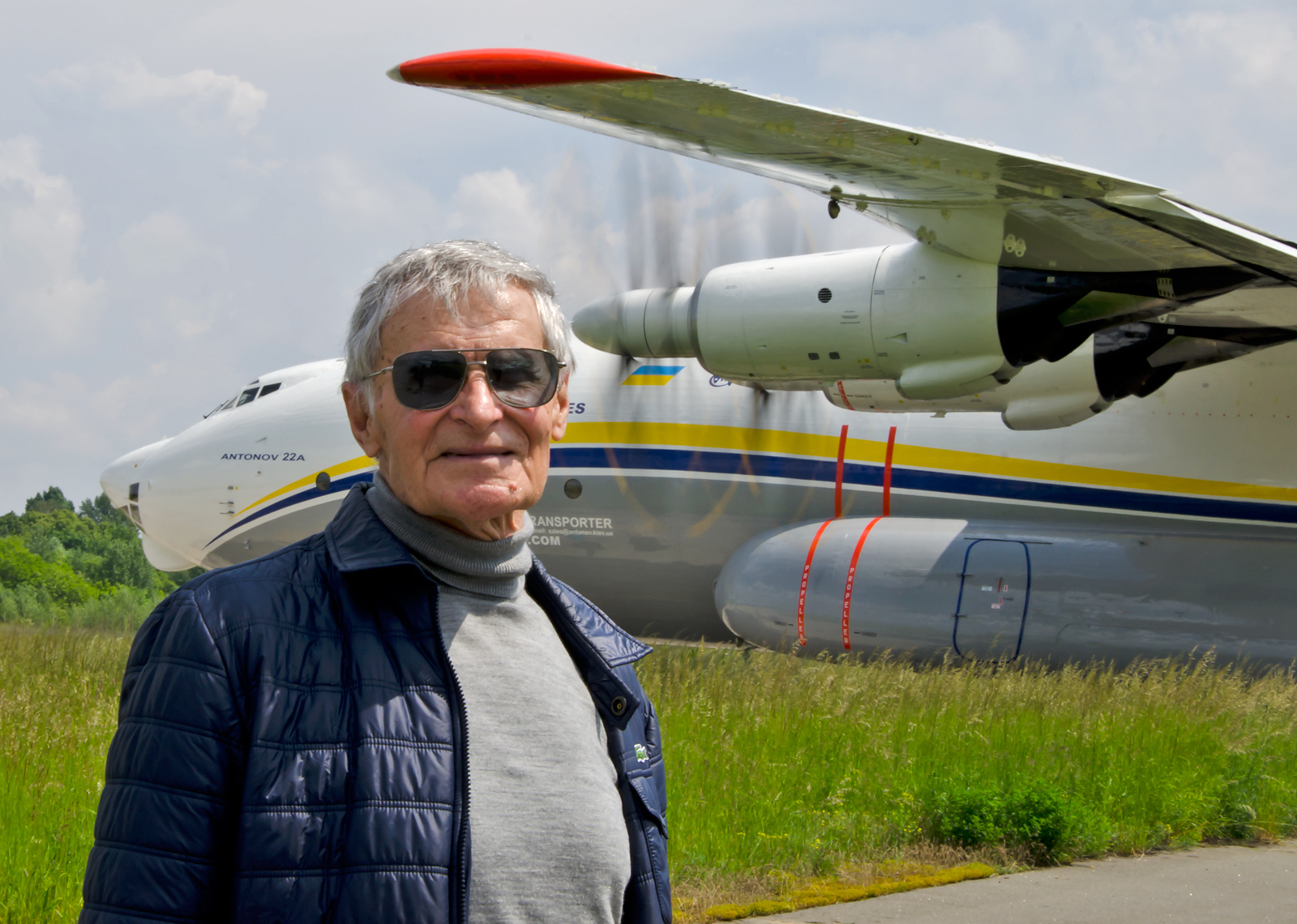 Yuri Kurlin, Antonov test pilot & Hero of the Soviet Union